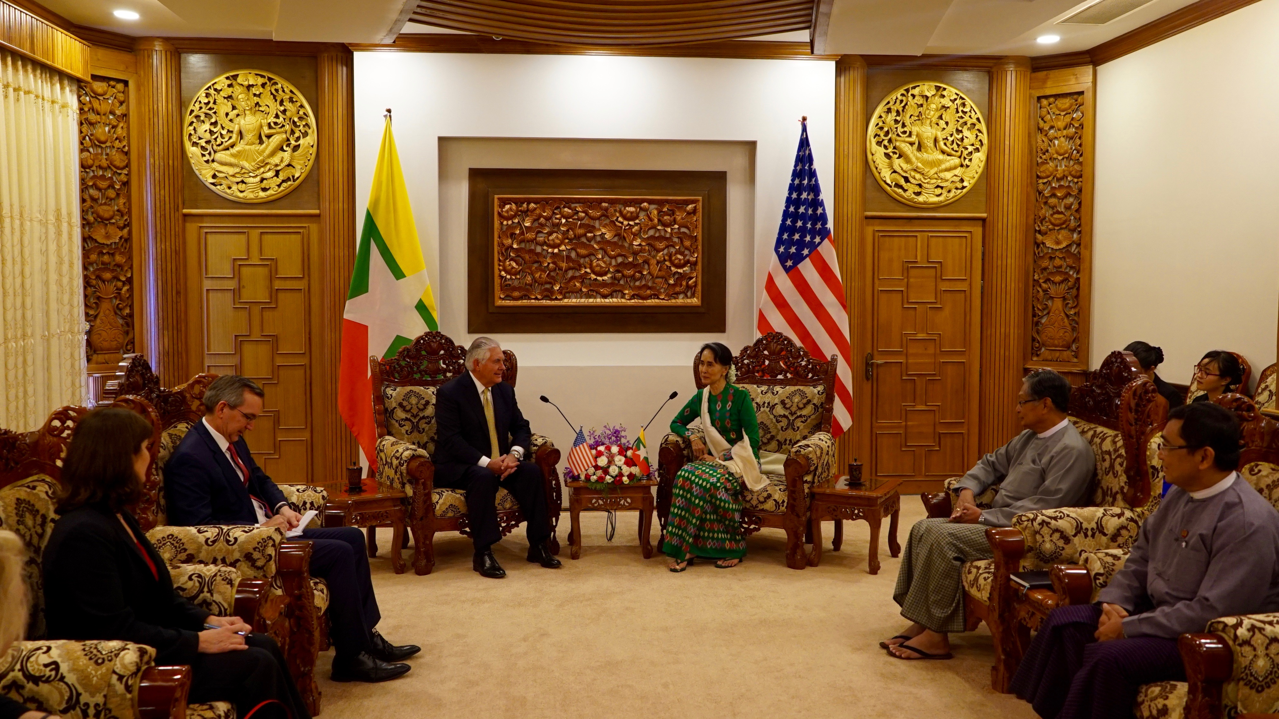 U.S. Secretary of State Rex Tillerson and Burmese State Counsellor Aung San Suu Kyi and their counterparts hold a bilateral meeting at the Ministry of Foreign Affairs before holding a joint press conference in Naypyidaw, Burma on November 14, 2017. [State Department Photo/ Public Domain]